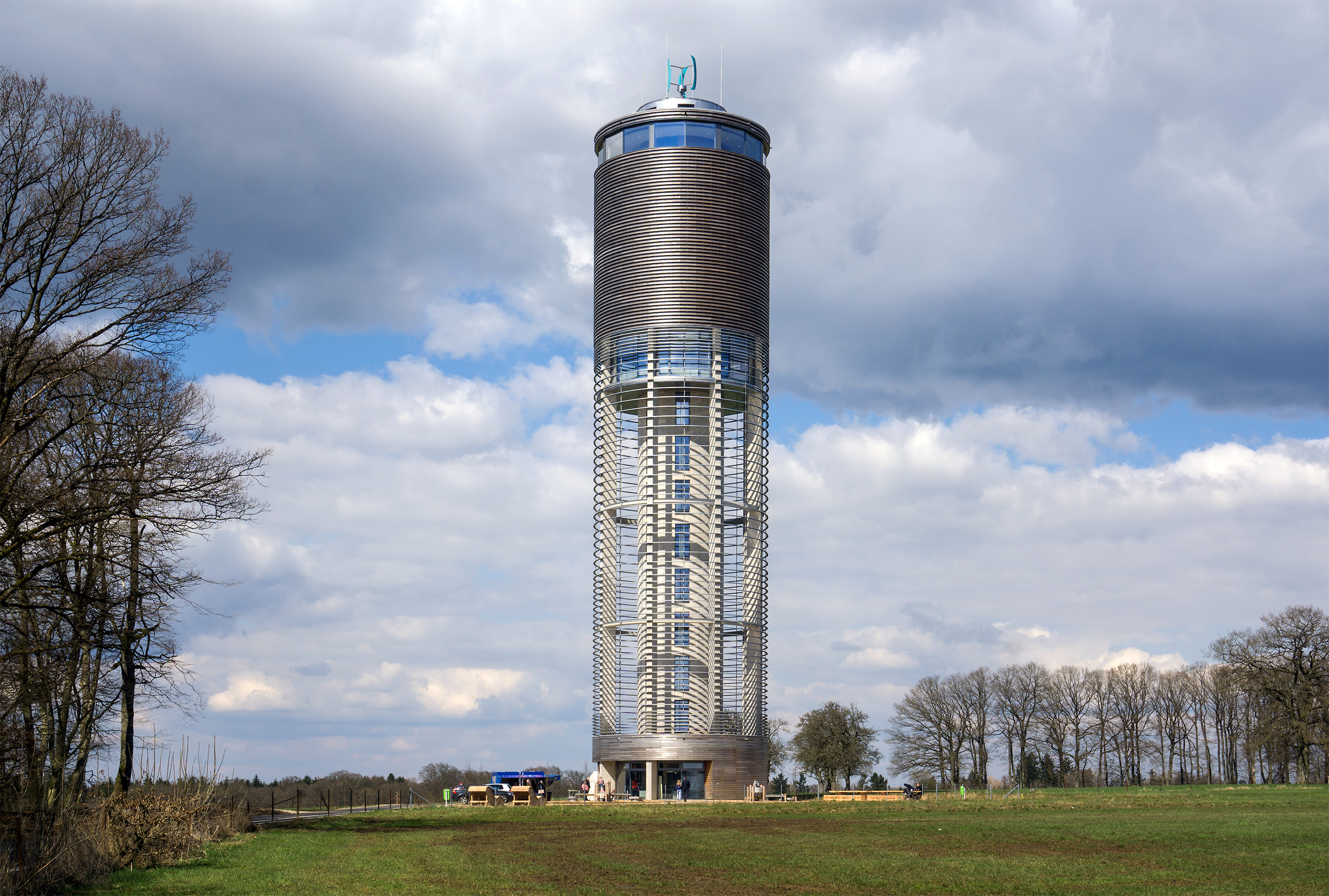 Water tower of Berdorf (Aquatower)